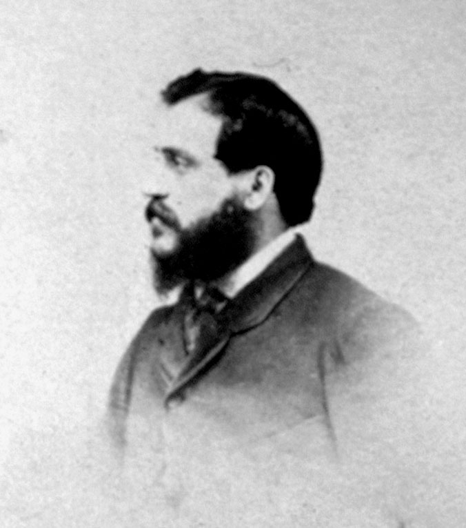 Felice Beato unknown photographer (possibly a self-portrait)